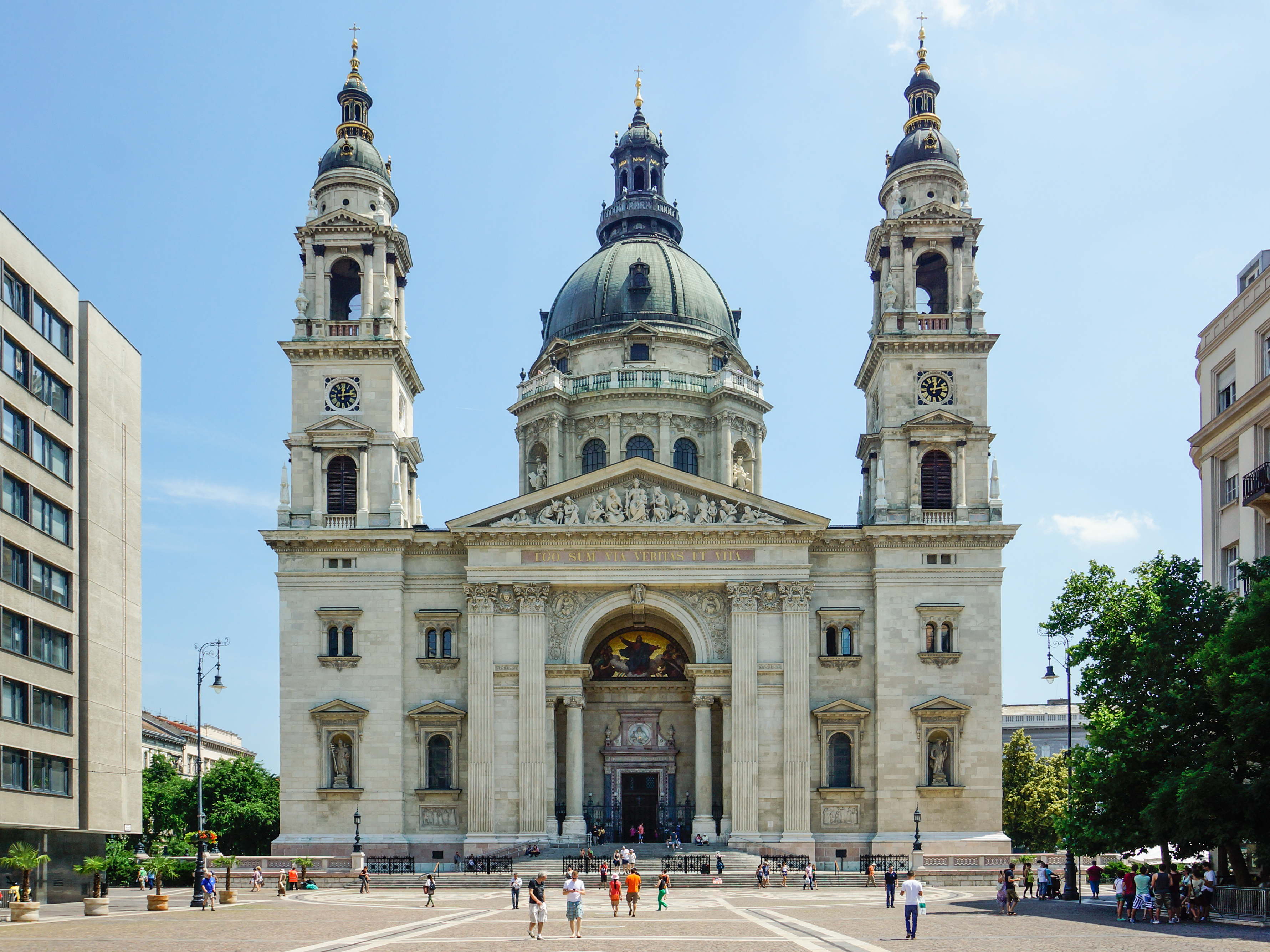 Saint Stephen's Basilica in Budapest, Hungary. This photo was taken with Sony SLT-A77 camera, thanks to cooperation with Sony Poland.You can see all photographs in category Taken with Sony SLT-A77. English | polski | +/−